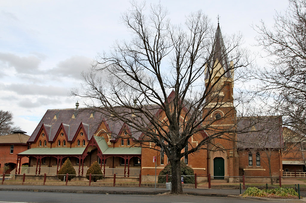 Photos of buildings of interest located in Orange, NSW, Australia Public School, Kite Street, Orange, NSW opened in 1880 by Sir Henry Parkes.